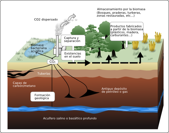 Schematic showing both terrestrial and geological sequestration of carbon dioxide emissions from a coal-fired plant. Rendering by LeJean Hardin and Jamie Payne.